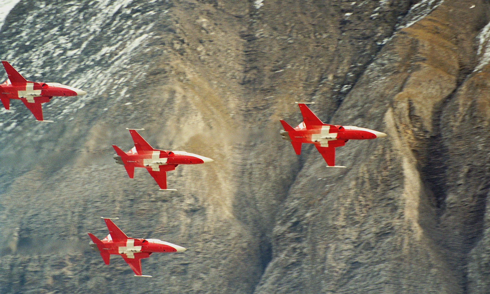 Patrouille Suisse in front of the slopes of the EbenfluhAxalp Shooting Demo 2006, Axalp-Ebenfluh Bombing and Gunnery Range, Switzerland